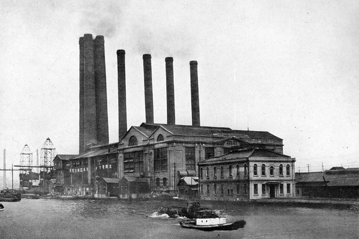 Kasugade first power station (1918 - 1951)